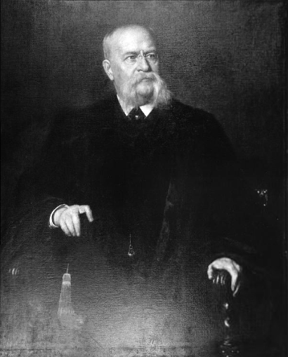 John Howard Van Amringe Artist Eastman Johnson, 29 Jul 1824 - 5 Apr 1906 Sitter John Howard Van Amringe, 1835 - 1915 Date 1900 Type Painting Medium Oil on canvas Dimensions 106.4 x 83.4cm (41 7/8 x 32 13/16") Credit Line Current Owner: Columbia University, Art Properties Website: Object number COO.509 CU Data Source Catalog of American Portraits See more items in Catalog of American Portraits